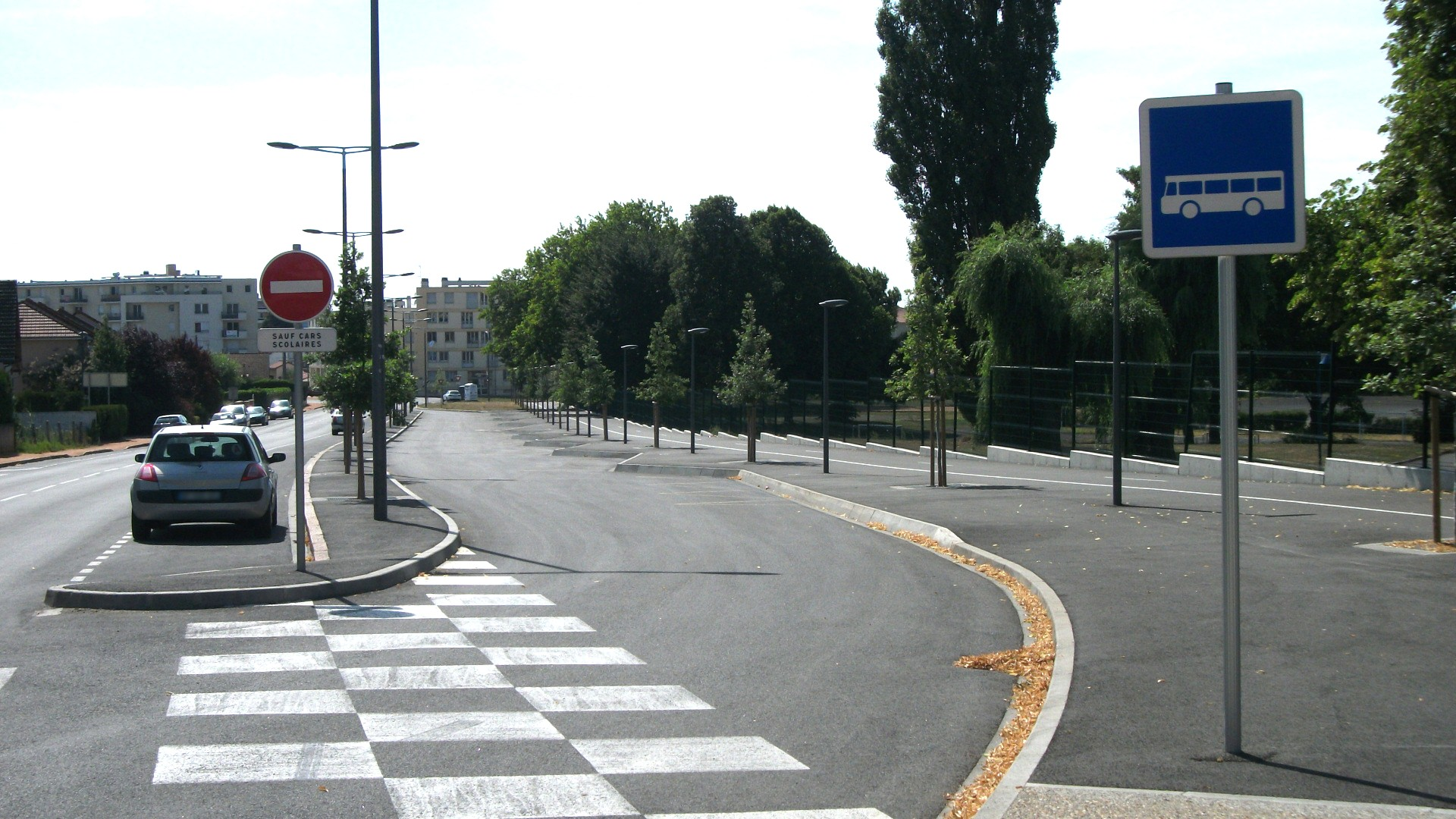 Bus station of Albert-Londres city school, opened in 2009; no access except school buses. Elevation: 283 m / 928 ft